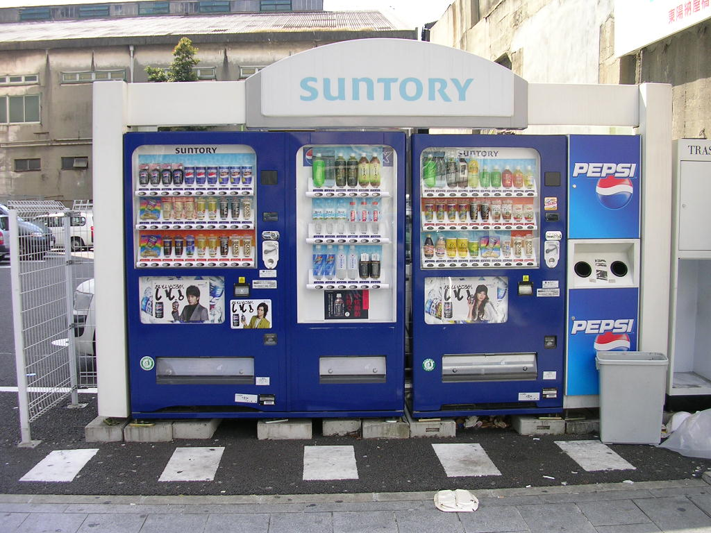 These are everywhere.